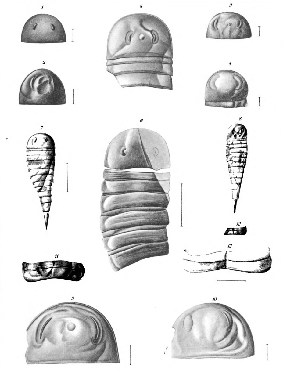 Parahughmillera (Eurypterus) maria Clarke Page 84 See plate 21 1–4 A series of carapaces showing notable variation in the position and size of the eyes, partly due to different direction of compression [see text fig. 37]. Paratypes. × 2 5 A carapace and three tergites. The carapace shows fairly normal outline and position of eyes. The ocular nodes are preserved while the surrounding visual areas are broken out. This condition produces in fully compressed specimens the apparently very small size of the eyes, seen in figure 1. × 3 6 Specimen showing the form of the six tergites. × 3 7 A young entire specimen, still retaining a trace of the broader carapace and preabdomen. × 3 8 An older individual, with mature characters. Natural size 9, 10 Two abnormallv compressed carapaces. Figure 9, × 3; figure 10, × 3½ 11, 12, 13 Sternites showing the median suture, the transverse line and the antelateral lobes. Figures 11, 12 natural size; figure 13, × 3 All specimens are from the Shawangunk grit at Otisville, Orange co., N. Y., and are in the State Museum The Eurypterida of New York. Volume 2. New York State Museum Memoir 14, plate 22